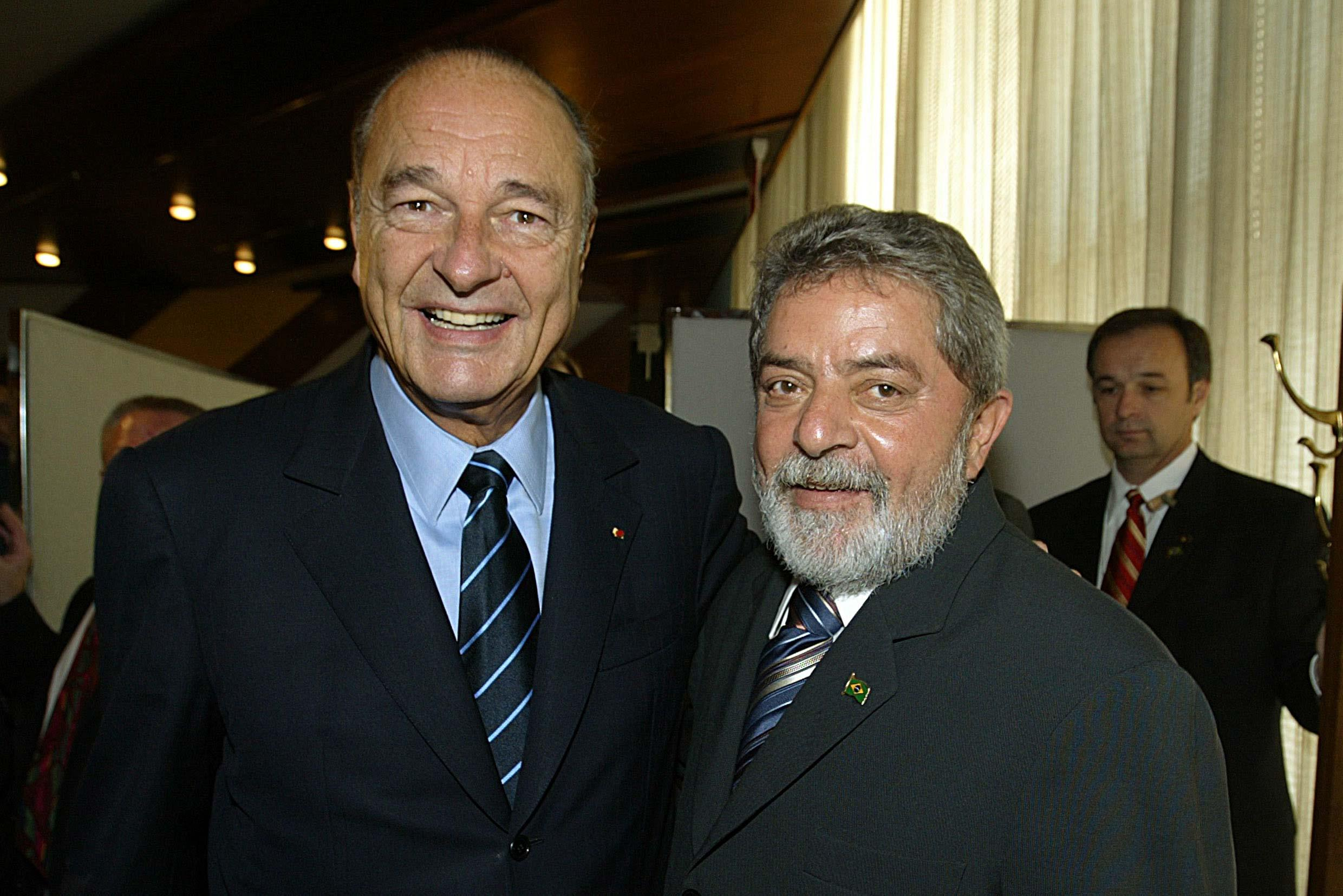 From left to right: French president Jacques Chirac and Brazilian president Lula da Silva.